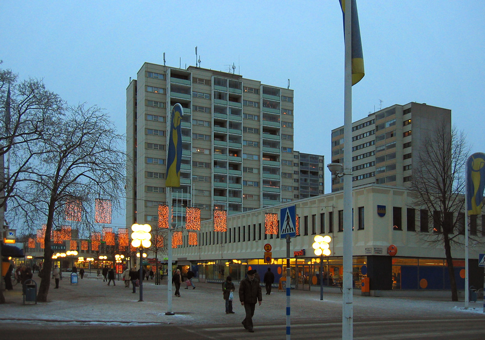 Kerava city centre, west of Paasikivenkatu. Picture taken in December 17, 2005.